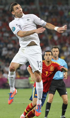 Anthony Réveillère at Euro 2012 match against Spain